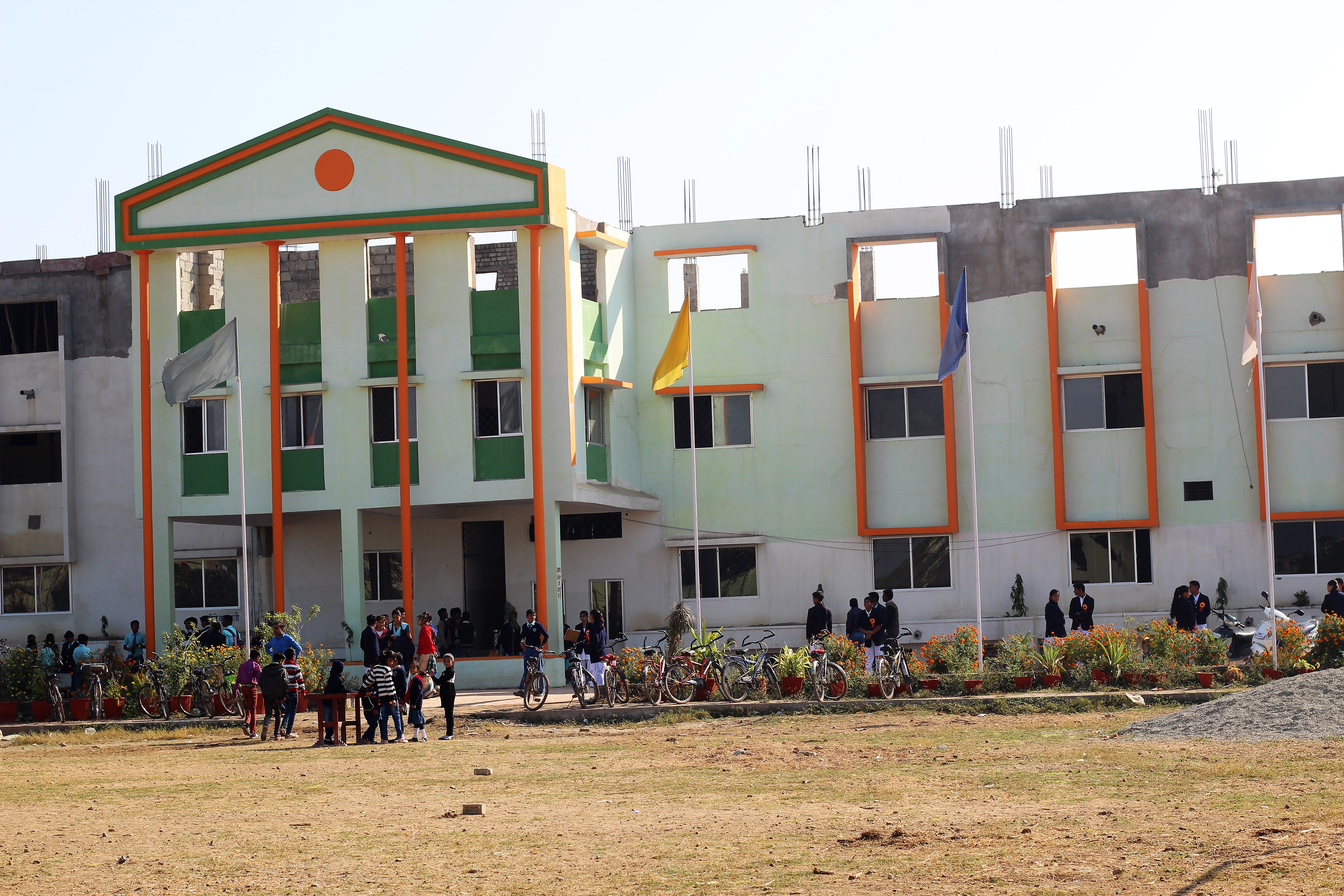 Front view of CPS